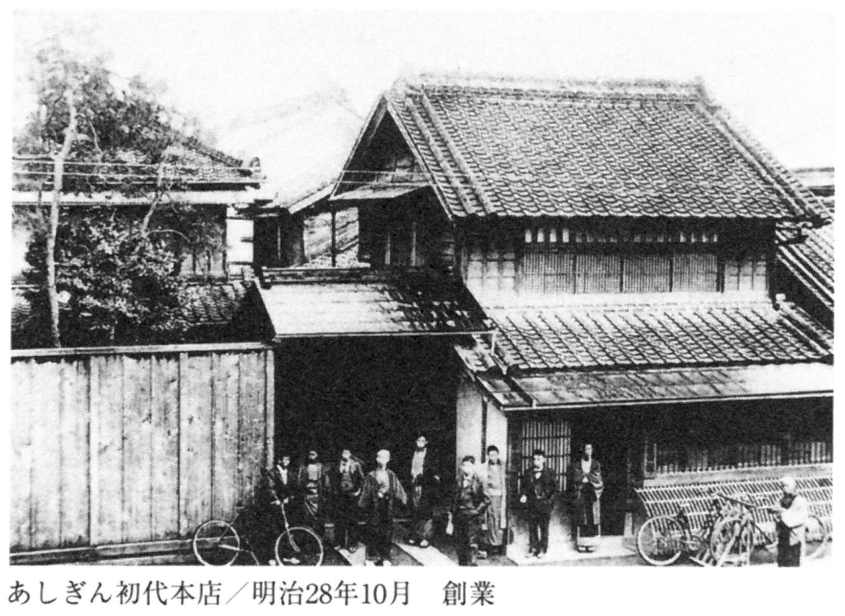 Ashikaga Bank Headquarters in 1895